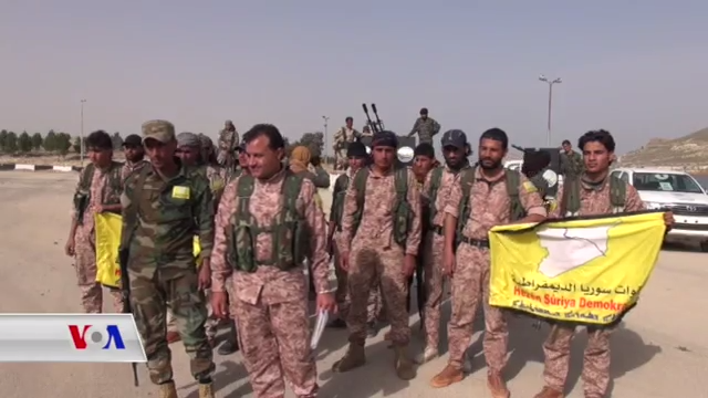 The Soldiers of the Two Holy Mosques Brigade, a subgroup of the Northern Sun Battalion, part of the Syrian Democratic Forces.